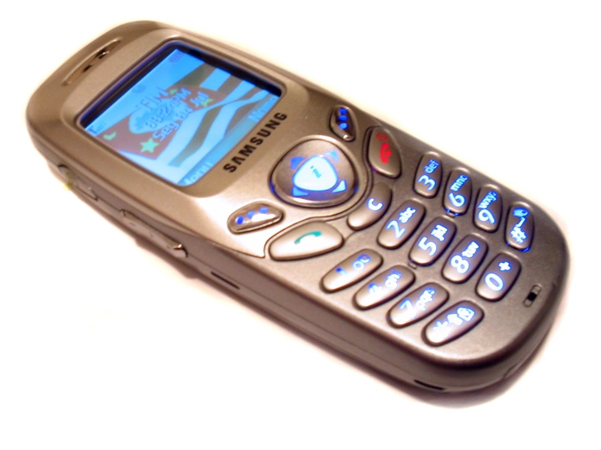 Samsung SGH-C200 GSM Color